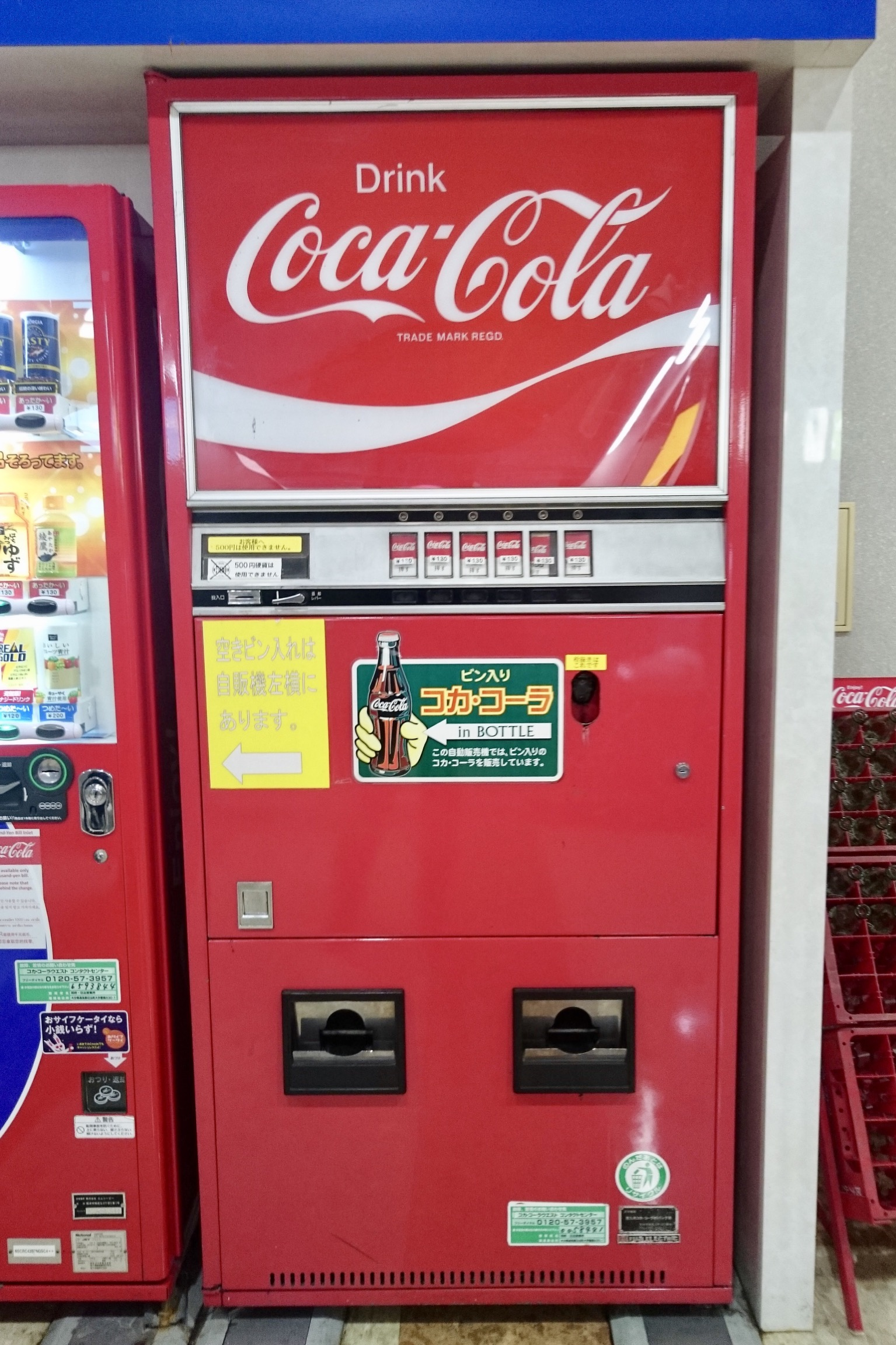 Coke(in bottle) vending machine